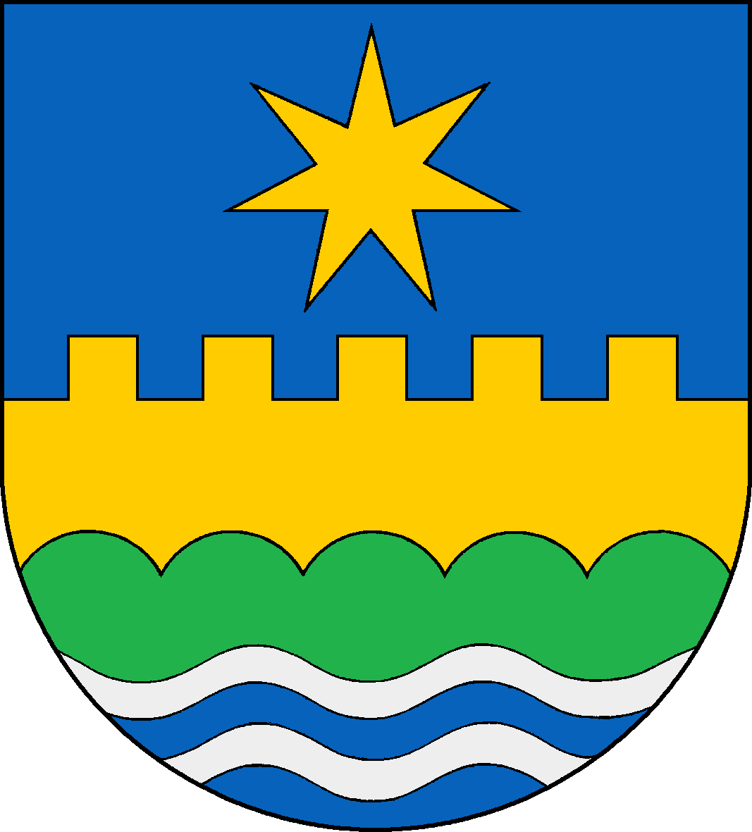 Coat of arms of the municipality Steinbergkirche in Schleswig-Holstein, Germany.